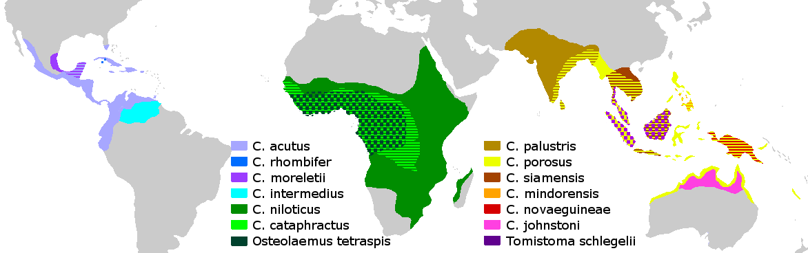 World distribution of genera and species within family Crocodylidae (C. means Crocodylus) Left: Crocodylus acutus Crocodylus rhombifer Crocodylus moreletii Crocodylus intermedius Crocodylus niloticus Crocodylus cataphractus = Mecistops cataphractus Osteolaemus tetraspis Right: Crocodylus palustris Crocodylus porosus Crocodylus siamensis Crocodylus mindorensis Crocodylus novaeguineae Crocodylus johnsoni Tomistoma schlegelii